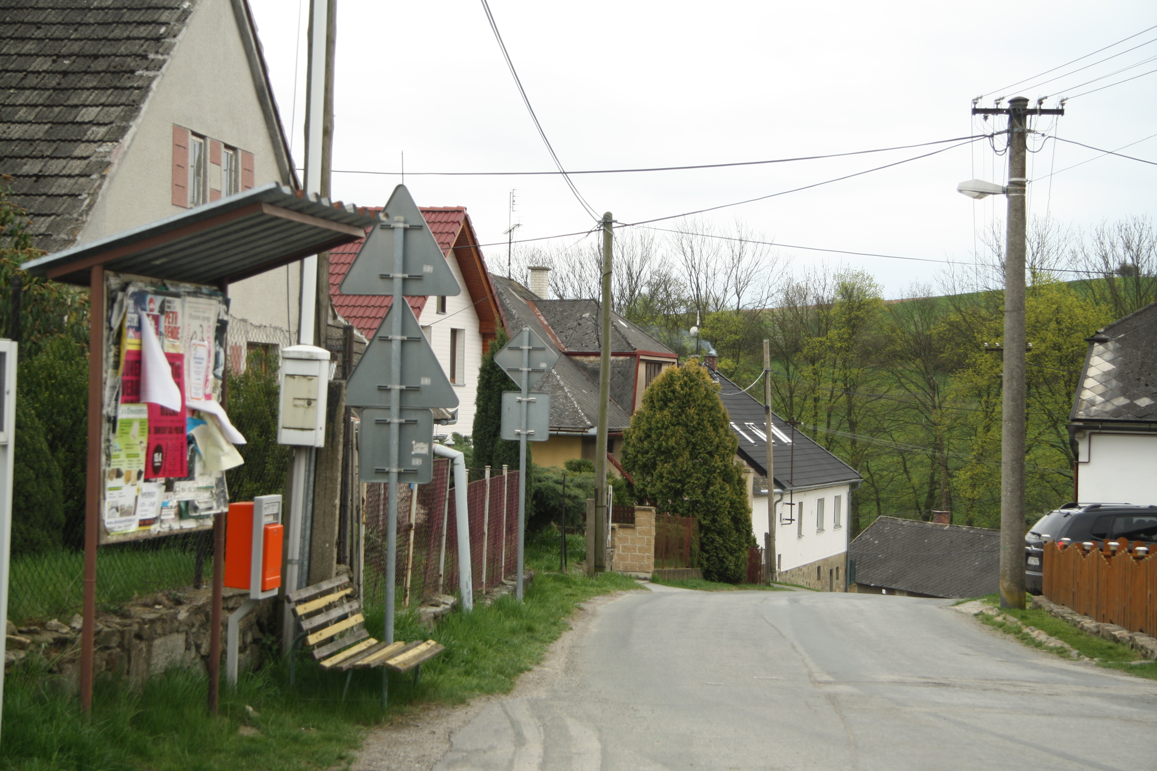 Center of Otín, Luka nad Jihlavou, Jihlava District.